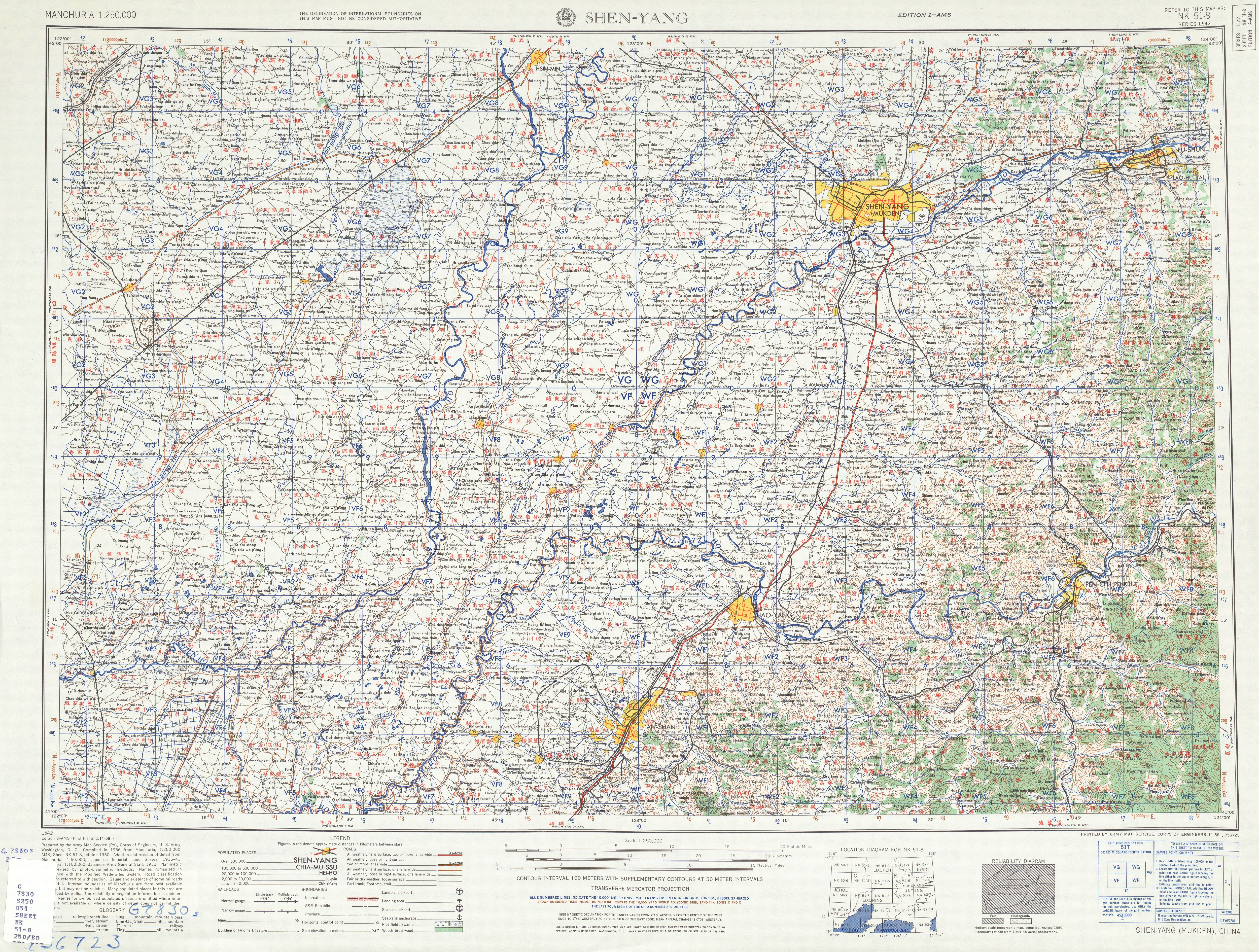 Manchuria AMS Topographic Maps